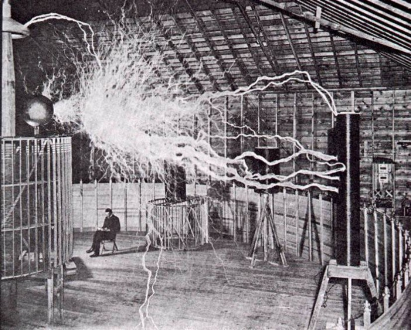 Publicity photo of Croat-Serbian-American inventor Nikola Tesla in December 1899 supposedly sitting in his laboratory in Colorado Springs next to his magnifying transmitter high voltage generator while the machine produced huge bolts of electricity. This image was created using "trick photography" via a double exposure. The electrical bolts were photographed in a darkened room. The photographic plate was exposed a second time with the equipment off and Tesla sitting in the chair. In his Colorado Springs Notes Tesla admitted the photo was a double exposure: To give an idea of the magnitude of the discharge the experimenter is sitting slightly behind the "extra coil". I did not like this idea but some people find such photographs interesting. Of course, the discharge was not playing when the experimenter was photographed, as might be imagined! and this is confirmed by Tesla biographers Carl Willis and Marc Seifer. In 1899-1900 Tesla built the laboratory and researched wireless electric power transmission there. The "magnifying transmitter", one of the largest Tesla coils ever built, with an input power of 150 kW generated voltages on the order of 12 million volts at frequencies around 150 kHz, producing 140 ft. (41 m) "lightning" bolts. Tesla sent a copy of this photograph to Sir William Crookes in England in 1901.